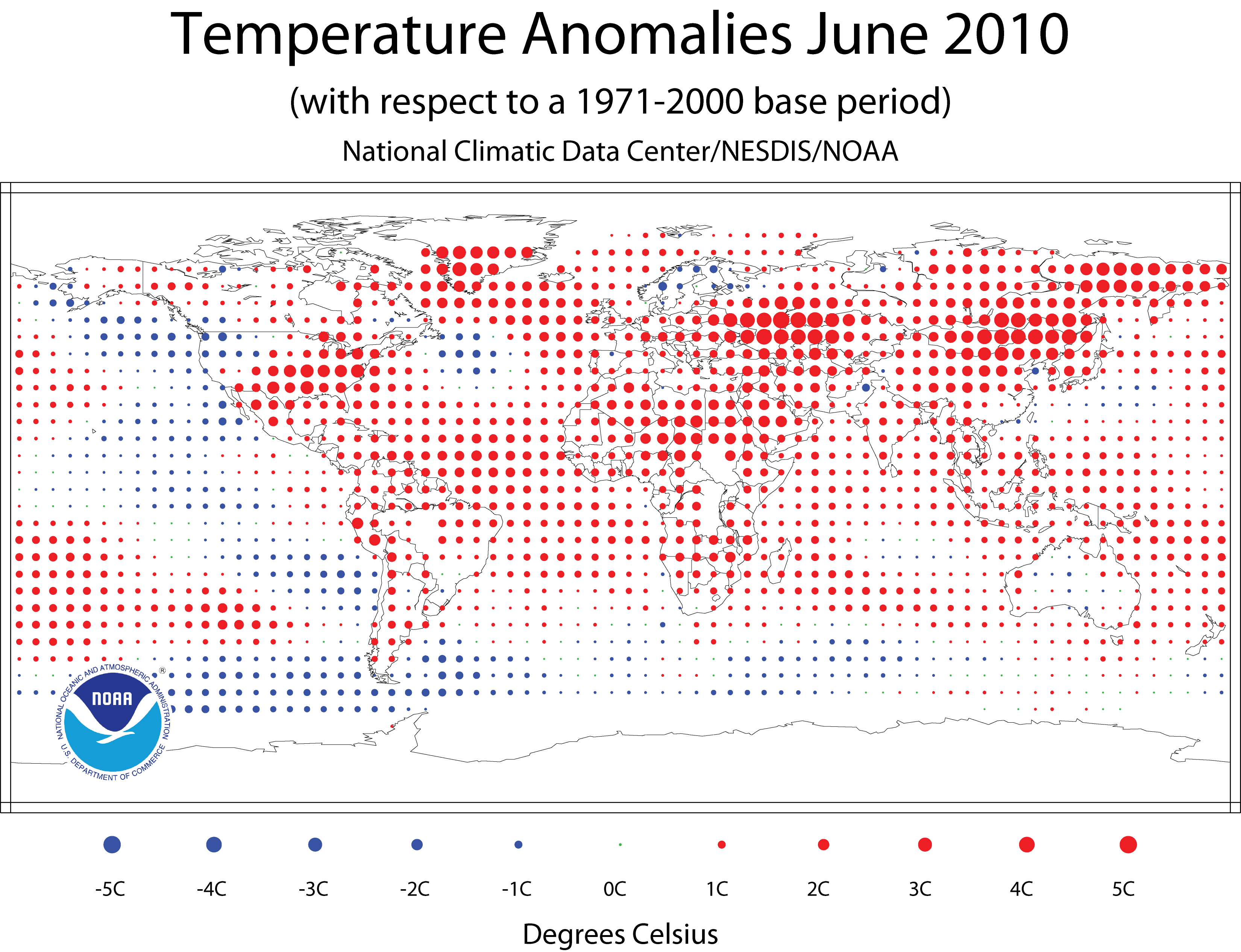 Temperature anomalies June 2010 (with respect to a 1971-2000 base period), by National Climatic Data Center, National Oceanic and Atmospheric Administration